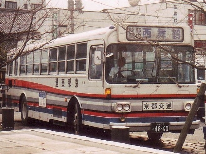 Company:Kyoto Kotsu Use:transit bus Car license:京都22 か 4860 Chassis manufacturer:Hino_Motors Coachbuilder:Hino Body Place:near Nishimaizuru Station in Maizuru City, Kyoto, Japan Scanned from negative color print